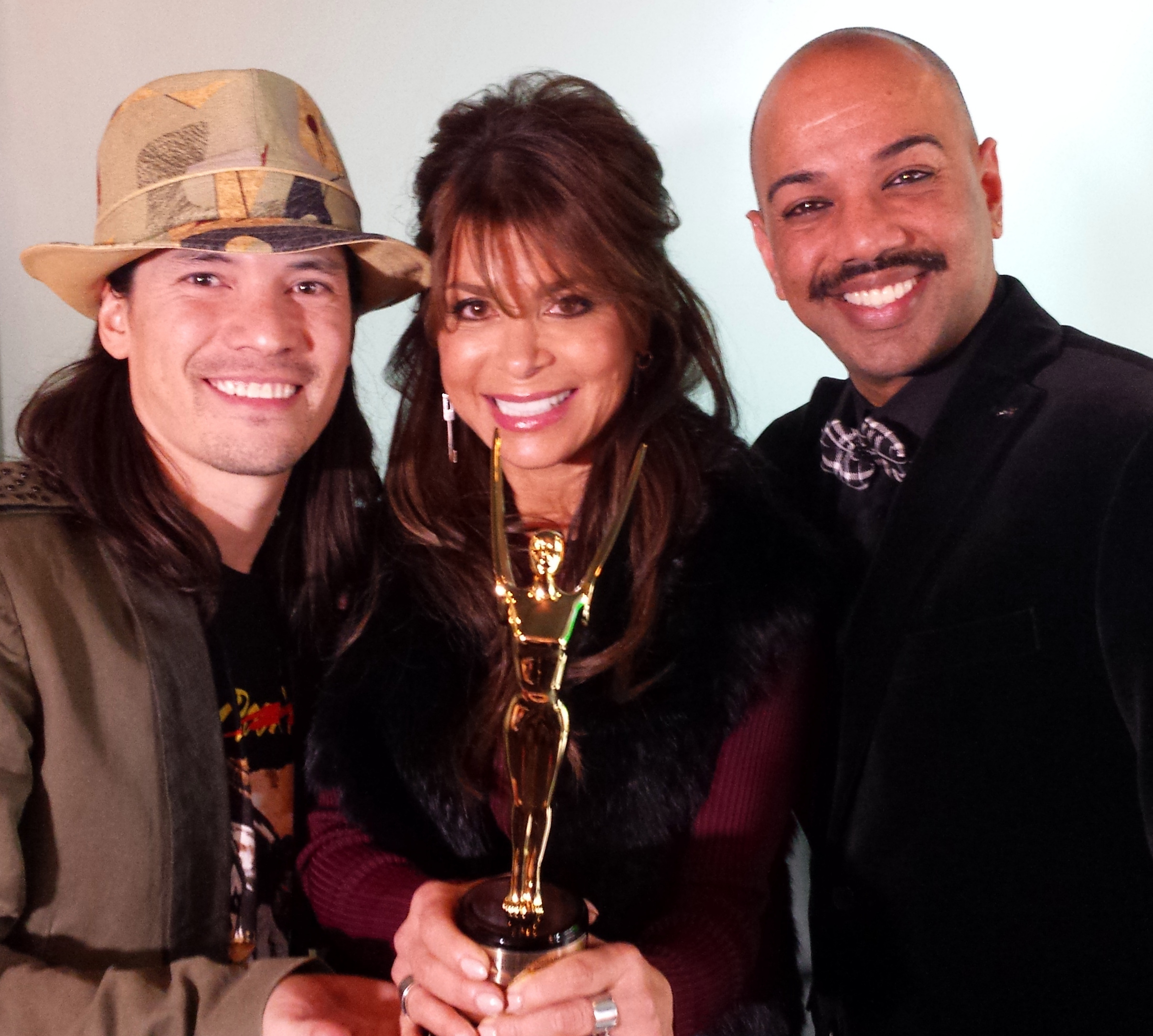 The 2015 World Choreography Award for 'Outstanding Choreography - Digital Format' was presented to Chucky Klapow (left), Paula Abdul (center), Nakul Dev Mahajan (right), and Renee Ritchie (not pictured) for their music video "Check Yourself". The video was launched as part of the Avon Foundation for Women's Breast Cancer Awareness campaign.